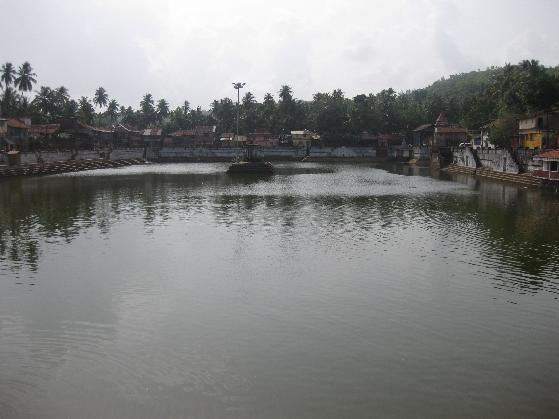 The holy Pushkarani at Gokaran called Koti tirtha